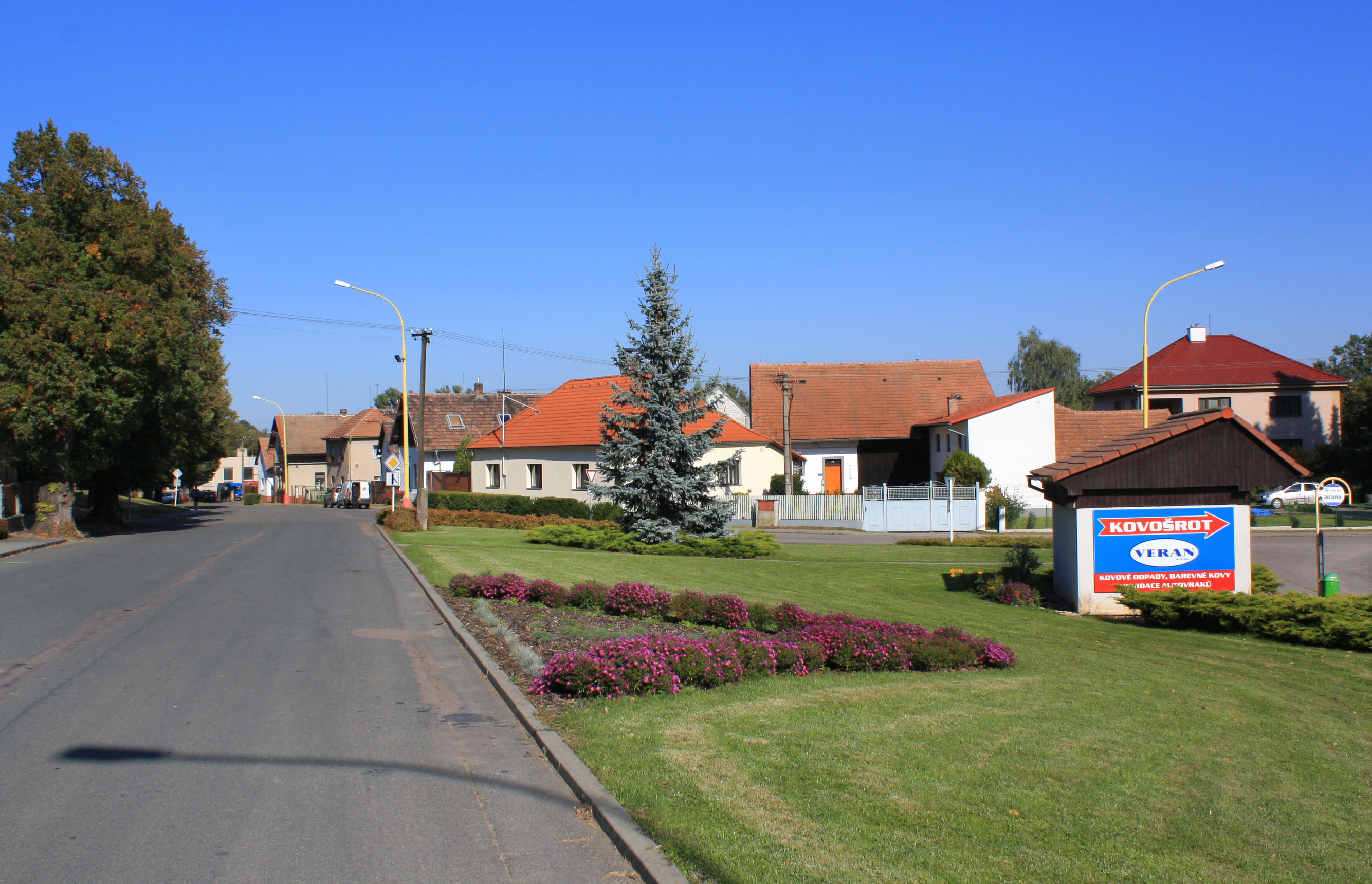 Common in Úhřetice, Czech Republic